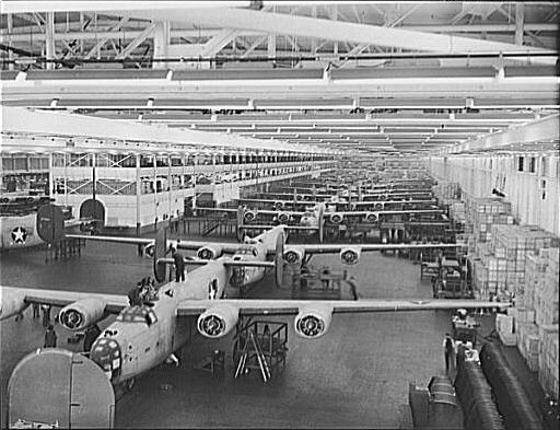 B-24E (Liberator) bombers at Willow Run. Looking up one of the assembly lines at Ford's big Willow Run plant, where B-24E (Liberator) bombers are being made in great numbers. The Liberator is capable of operation at high altitudes and over great ranges on precision bombing missions. It has proved itself an excellent performer.